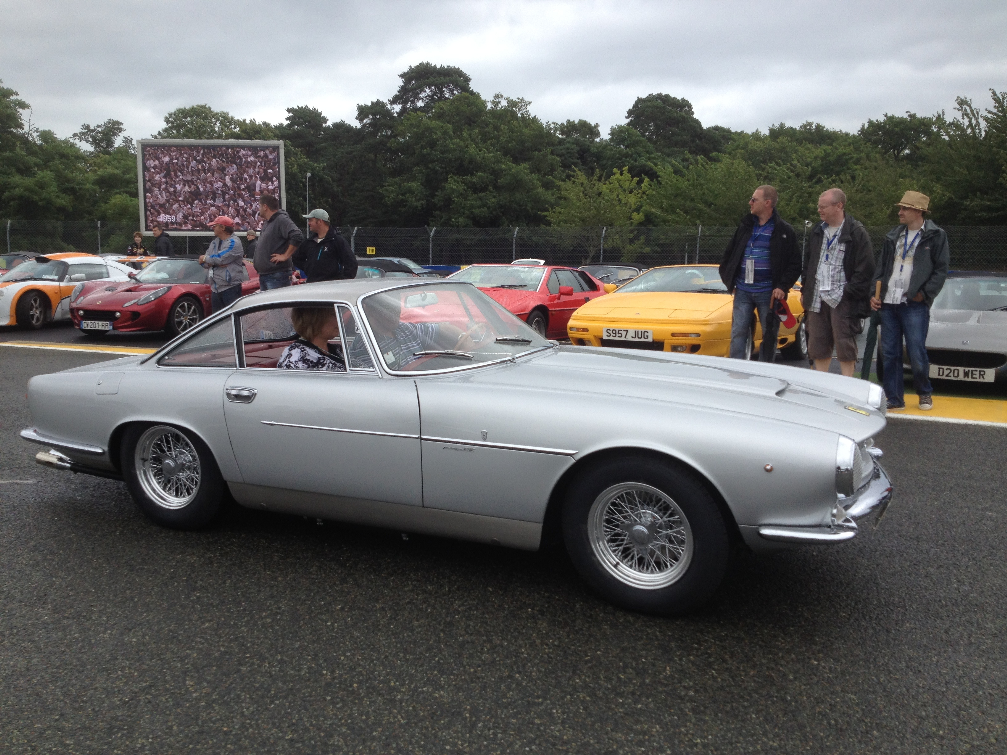 1960 Ferrari 250 GT SWB Bertone s/n 1739GT. At the Le Mans Classic 2014.